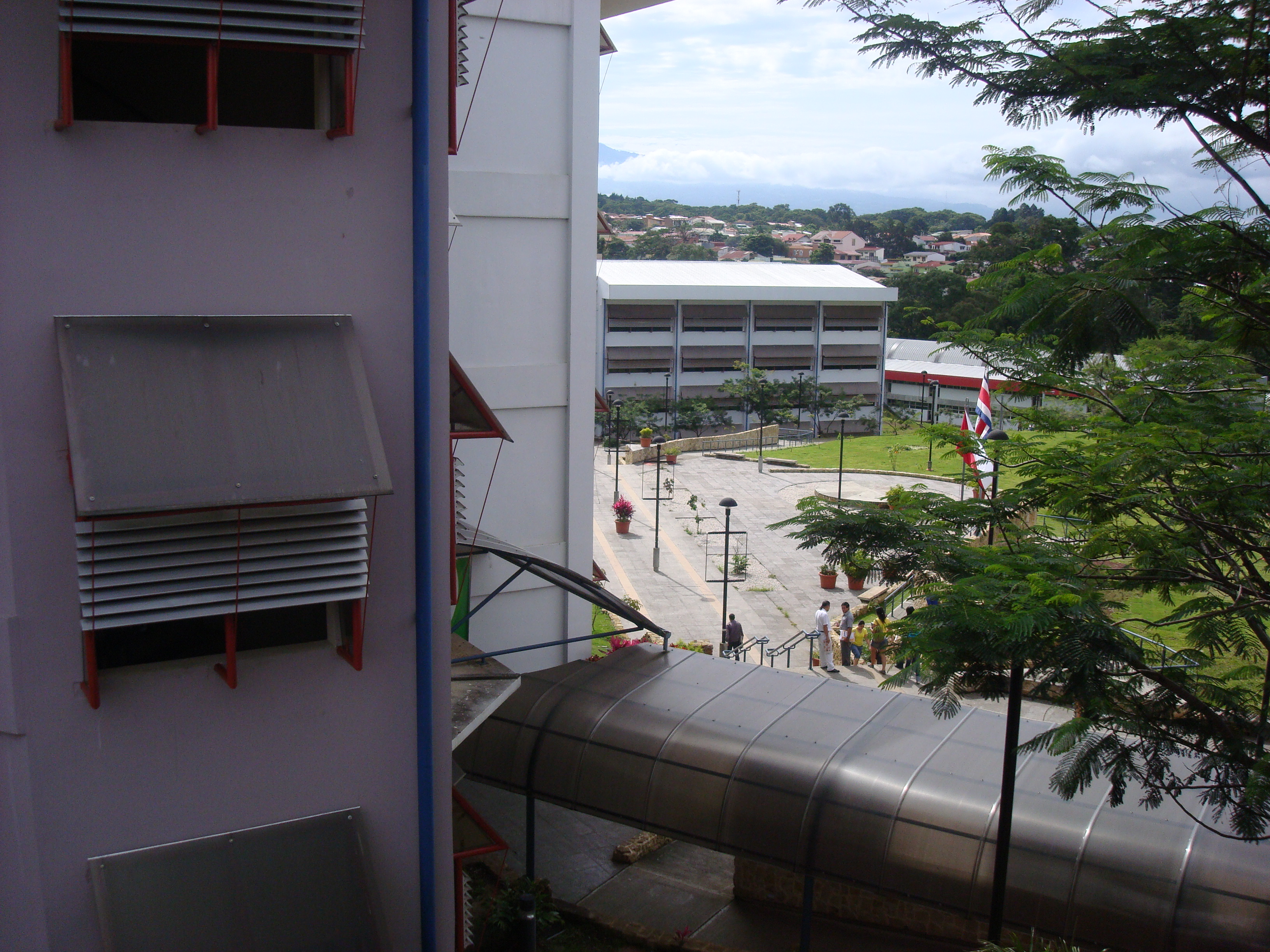 National University of Costa Rica